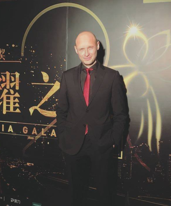 Церемония вручения Magnolia Awards, Шанхай, 2017